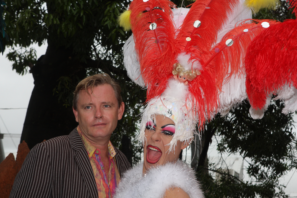 Madame Tussauds Sydney Madame unveils Guy Pearce wax figure Madame Tussauds Sydney this morning unveiled a wax figure of English-born Australian actor, Guy Pearce, for the first time. Pearce’s wax figure was flamboyantly dressed as his most well-known character, Felicia Jollygoodfellow. The latest figure to be revealed by Madame Tussauds Sydney was unveiled in The Outback at WILD LIFE Sydney to imitate scenes from Australian comedy drama, The Adventures of Priscilla, Queen of the Desert. Madame Tussauds is set to officially open its doors in Sydney’s Darling Harbour in May 2012. The Pearce wax figure joins a star-studded line up at Madame Tussauds Sydney including Johnny Depp, Nicole Kidman, Lady Gaga, Dannii Minogue, Ray Meagher, Hugh Jackman and Amanda Keller. Stephan Elliot, Director of The Adventures of Priscilla, Queen of the Desert and Kristy Enright, Madame Tussauds Sydney spokesperson were also on hand to oversee the latest media event, as Madame Tussauds gets everything ready for the public at large. Websites Madame Tussauds Sydney Hausmann Communications Eva Rinaldi Photography Flickr Eva Rinaldi Photography Splash News